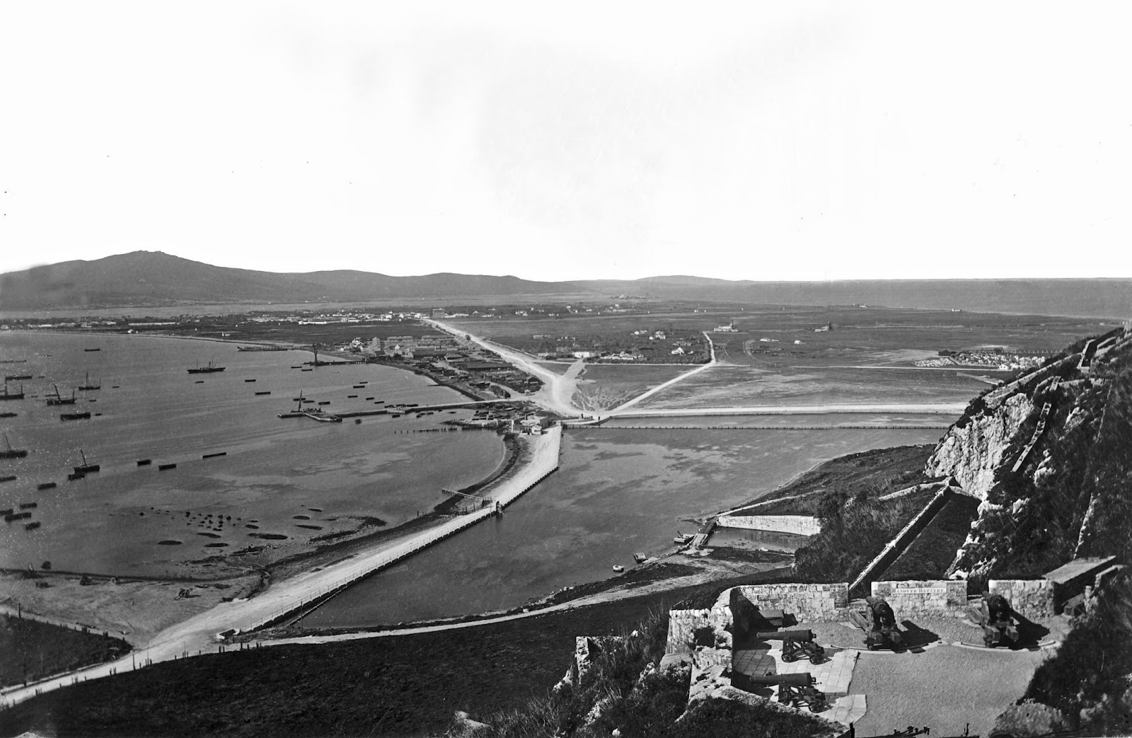 Neutral Ground - Photographs taken by George Washington Wilson (who died in in 1893) of places in Gibraltar. Note: The battery at bottom right is labelled "Hanover Battery" on the wall